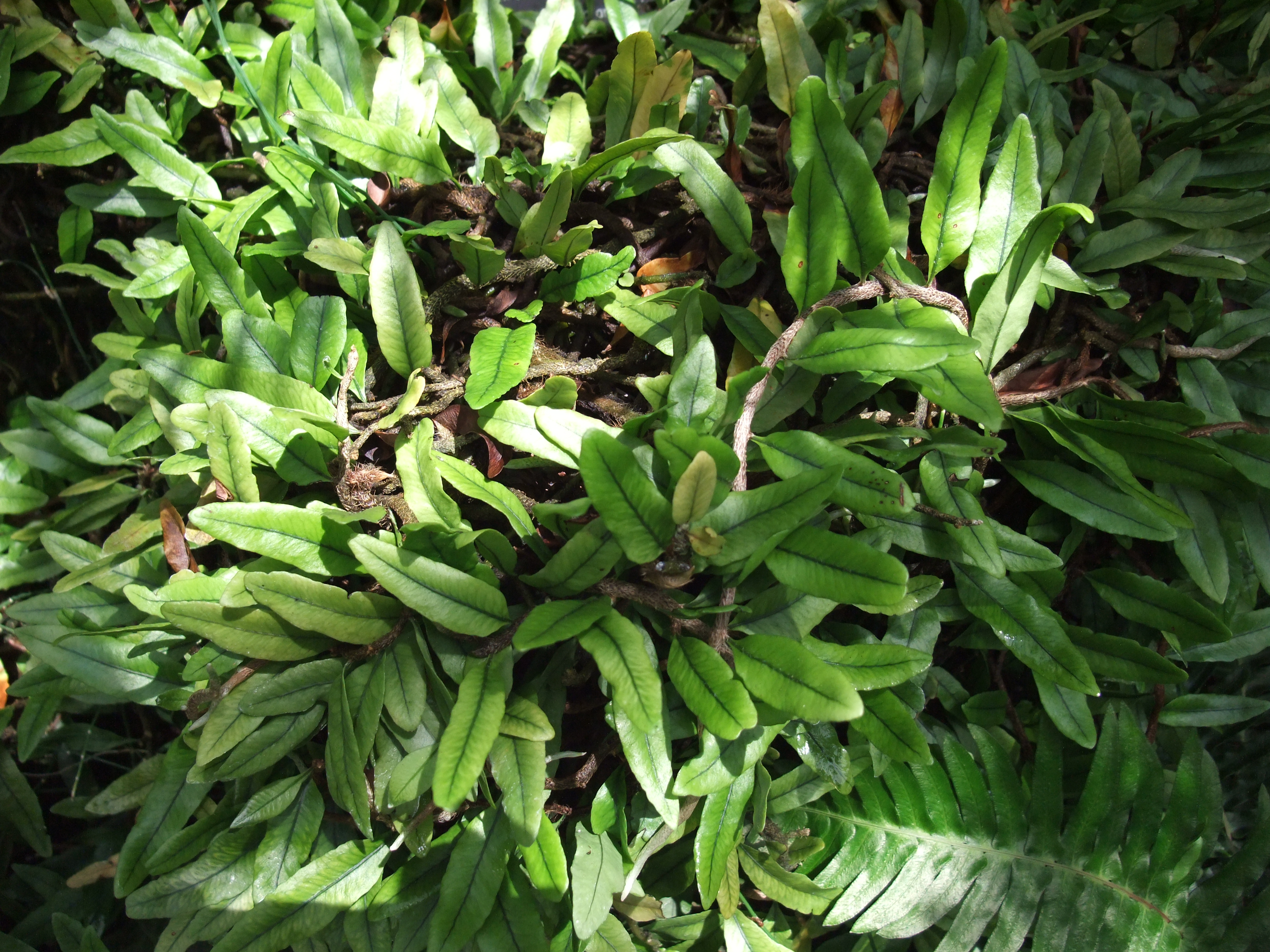 A photograph of Microgramma lycopodioides.